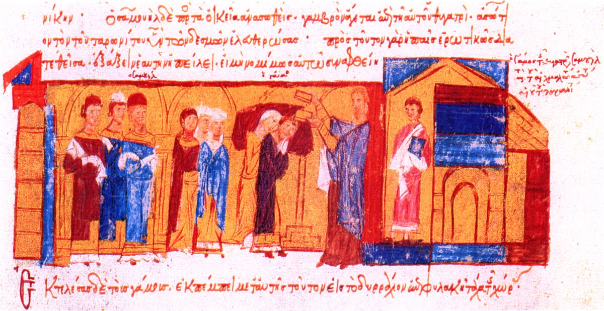 The marriage of Samuels daughter Miroslava